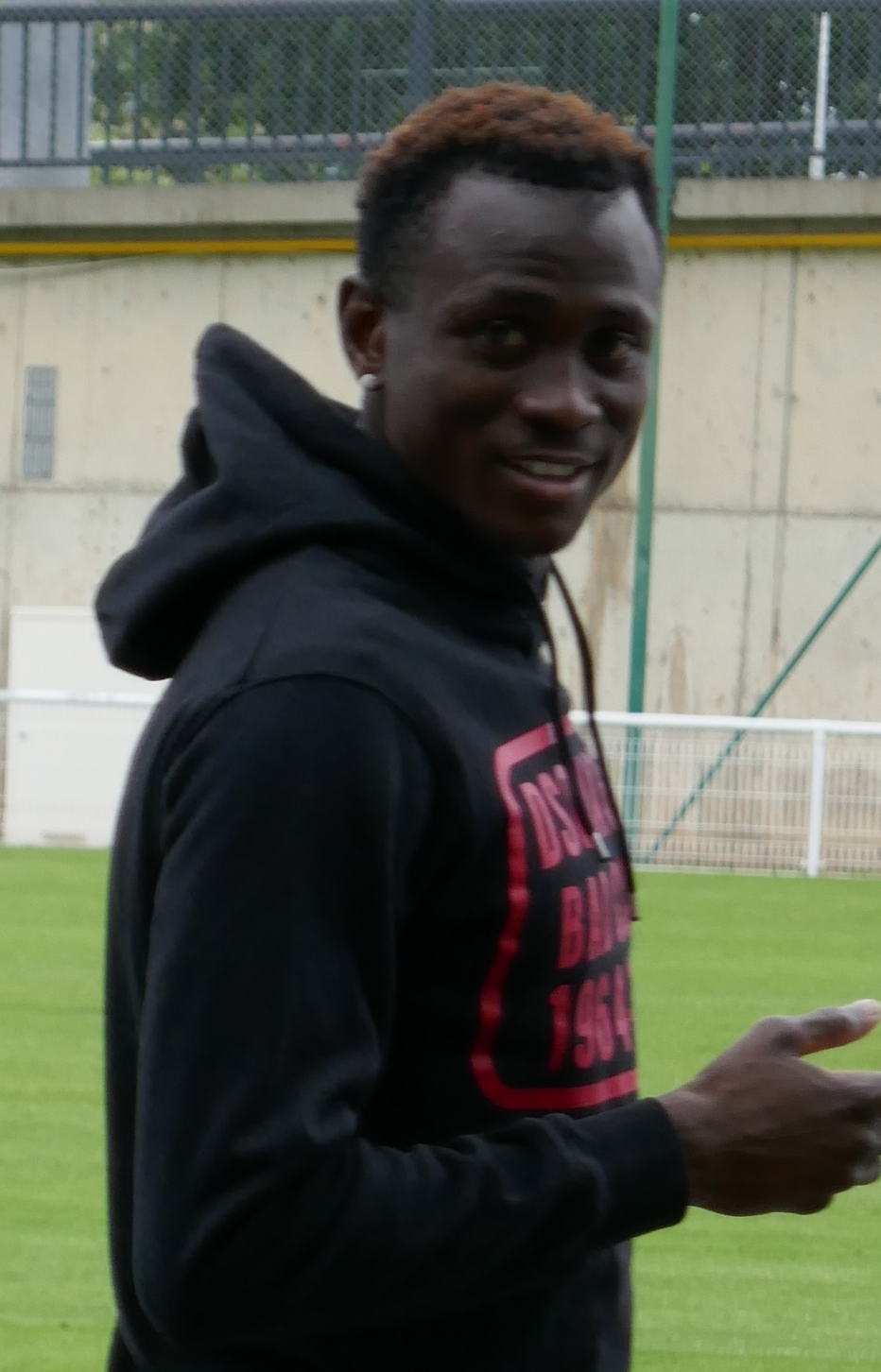 Issiaga Sylla after a training session, the 9th May of 2018, at the training center of the Toulouse Football Club.